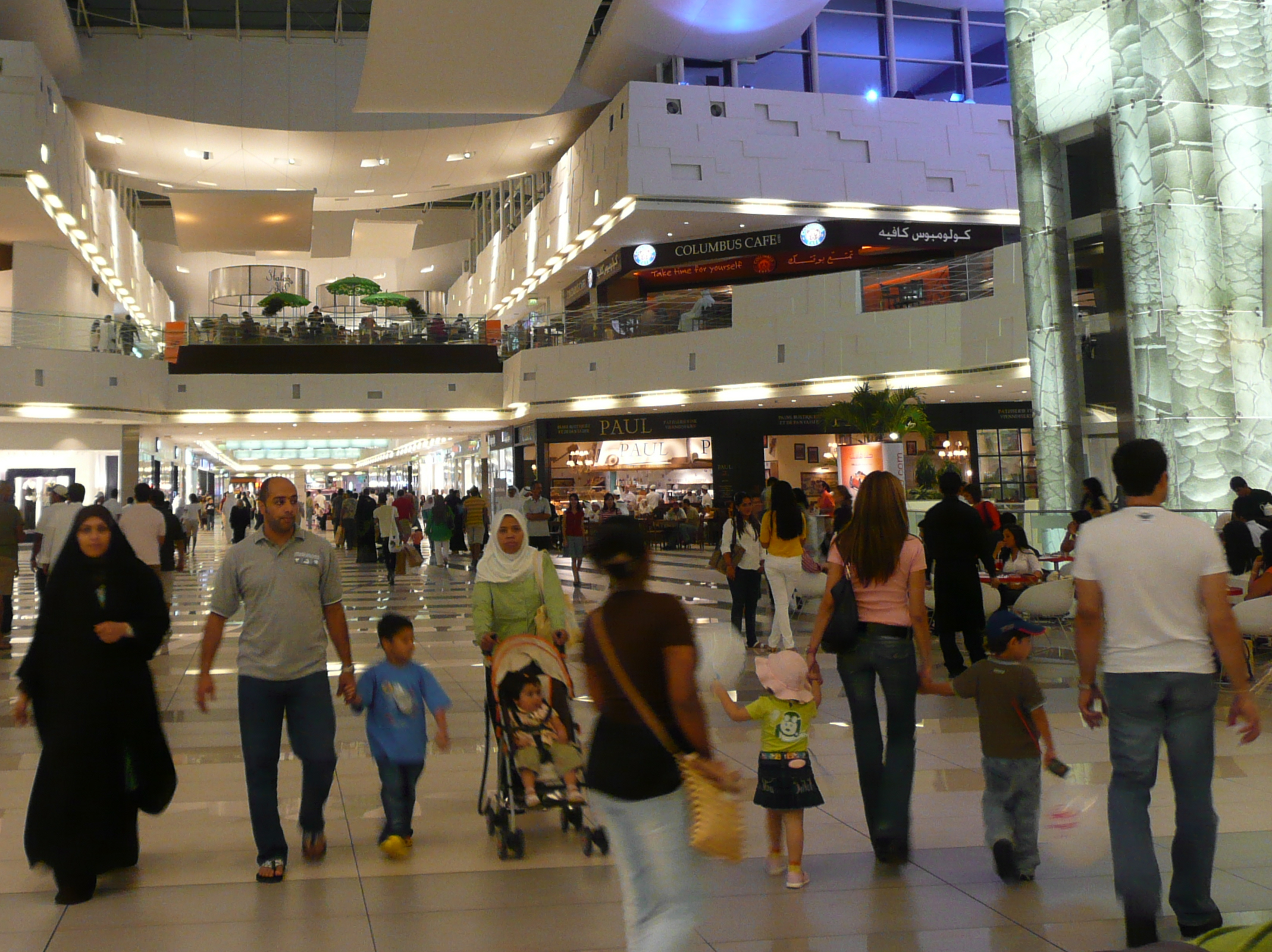 Avenues mall in Kuwait